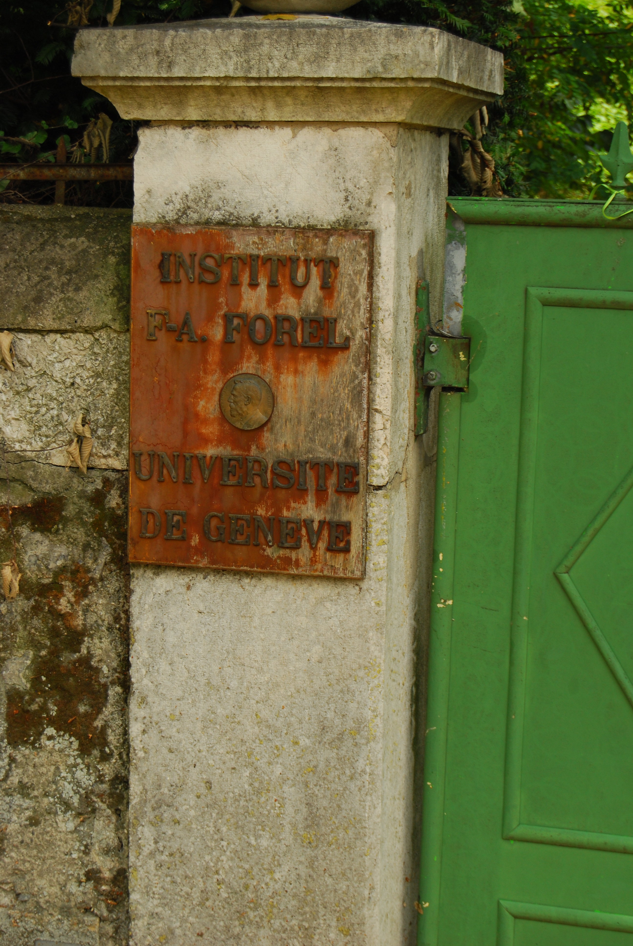 Park of the F.-A. Forel Insitute of the Univerxity of Geneva en Versoix, canton of Geneva, Switzerland